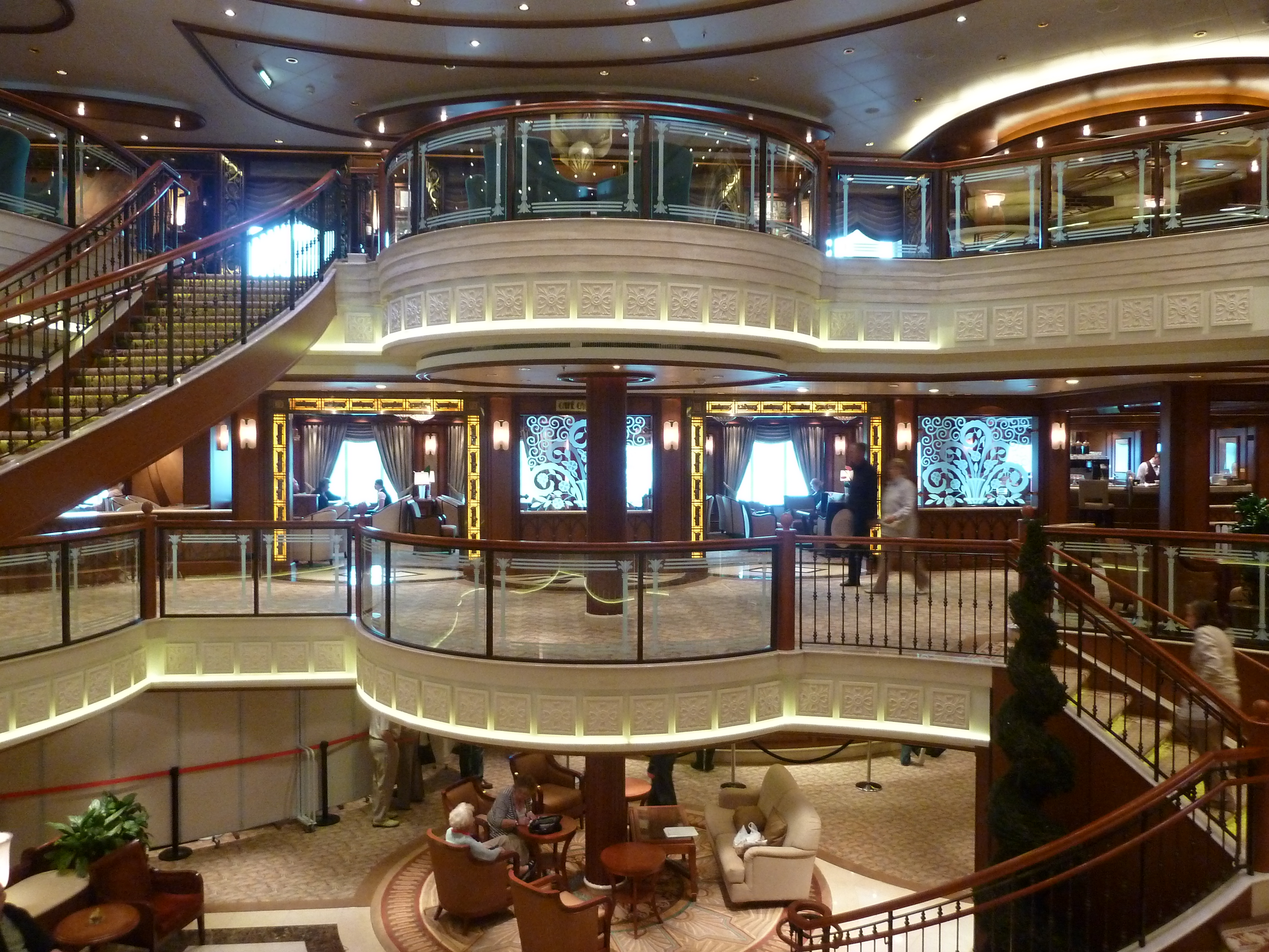 QE lobby